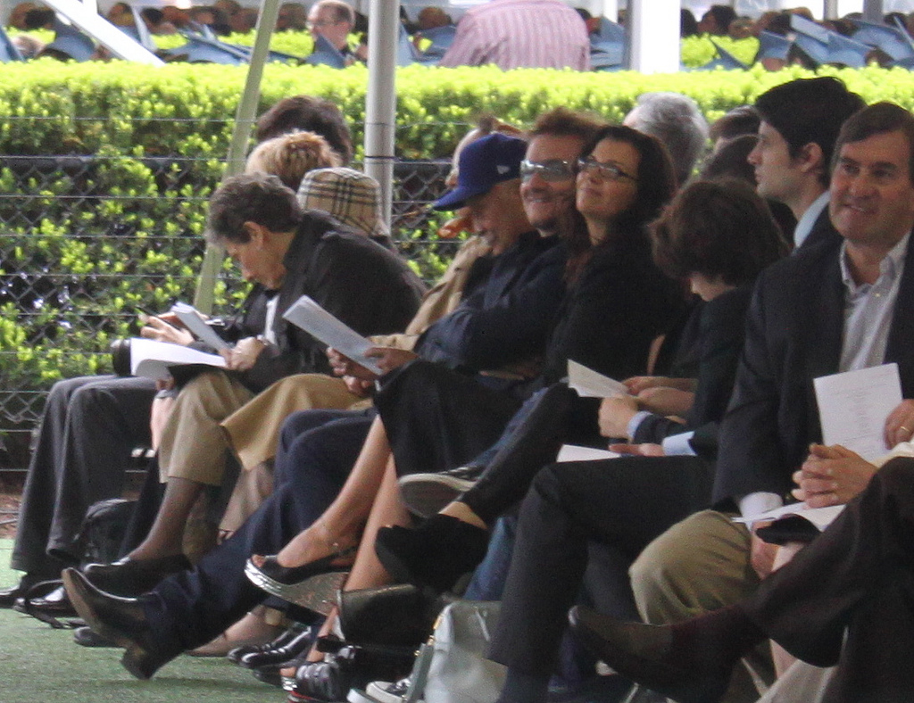 Bono and his wife Ali Hewson at Columbia College graduation Their daughter was in the 2012 graduating class